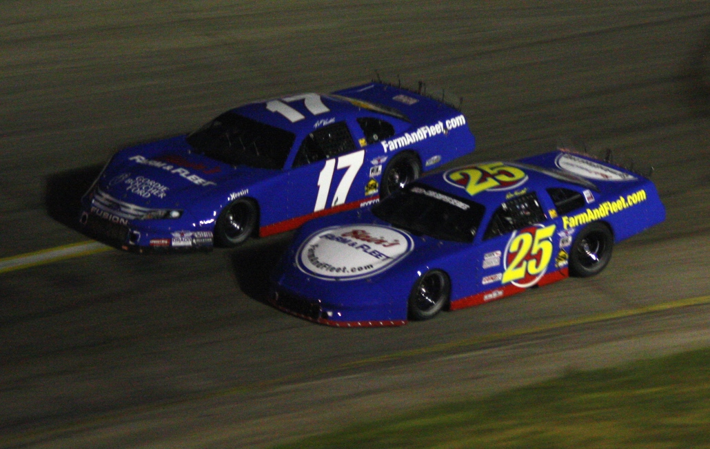 NASCAR driver Matt Kenseth racing against his son Ross Kenseth in super late models at the 2012 Slinger Nationals at Slinger Super Speedway.